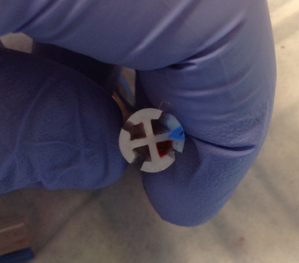 This is a cross-sectional view of a Blake style chest drain for use in chest tube